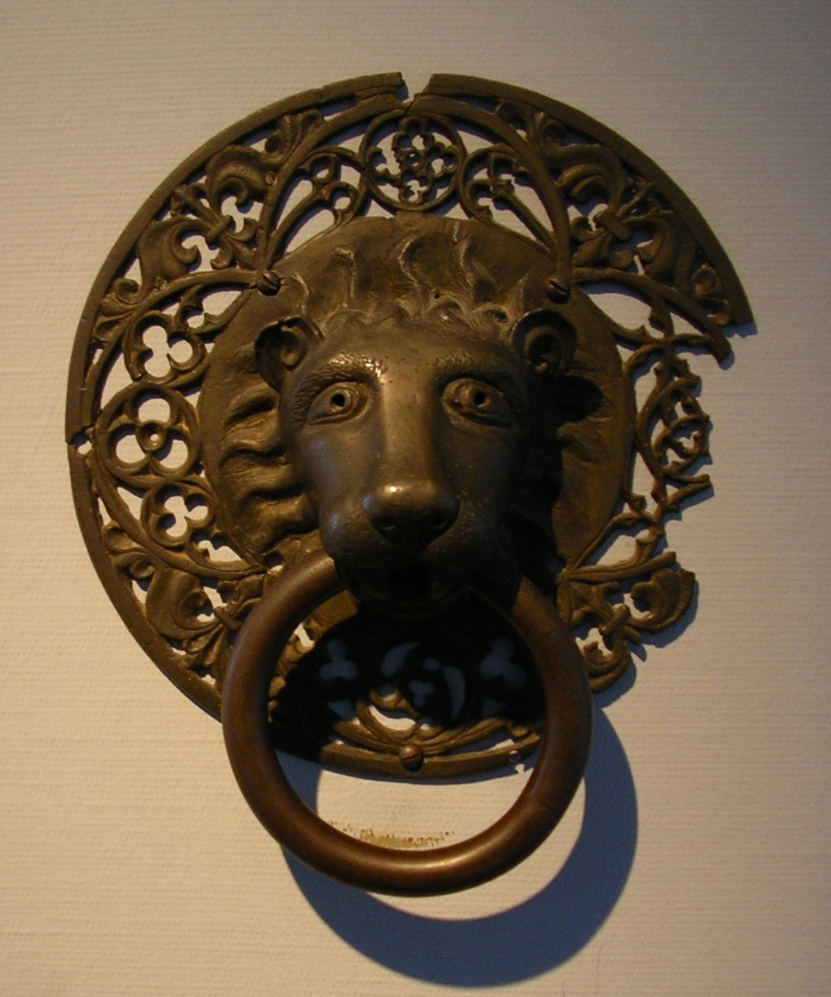 Door knocker from townhall at Bremen (Germany), now at Focke-Museum Bremen. Bronze, about 1405.